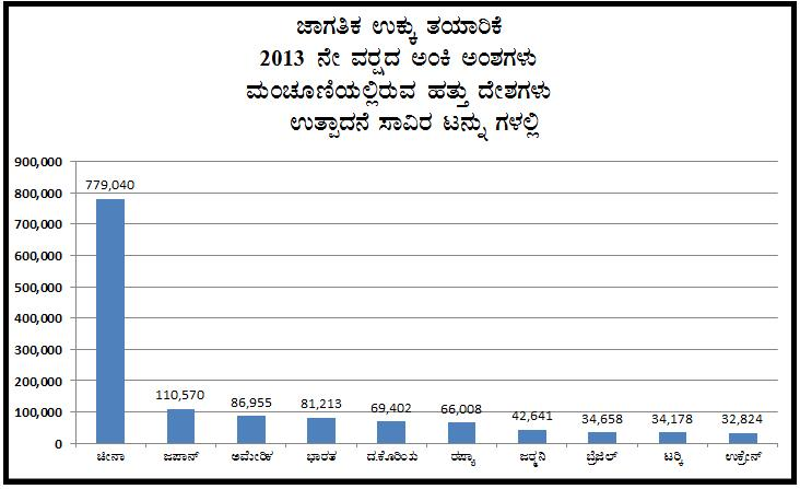 crude steel production of 2013